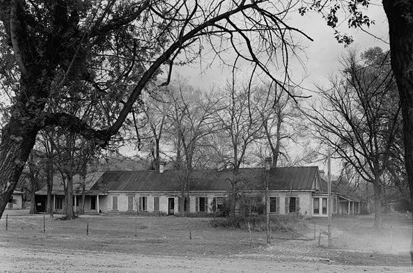 Watrous House in the Watrous-La Junta historic district in Mora County, New Mexico. It is a contributing property in the the settlement of La Junta de los Rios Mara y Sapello, and on the National Register of Historic Places.